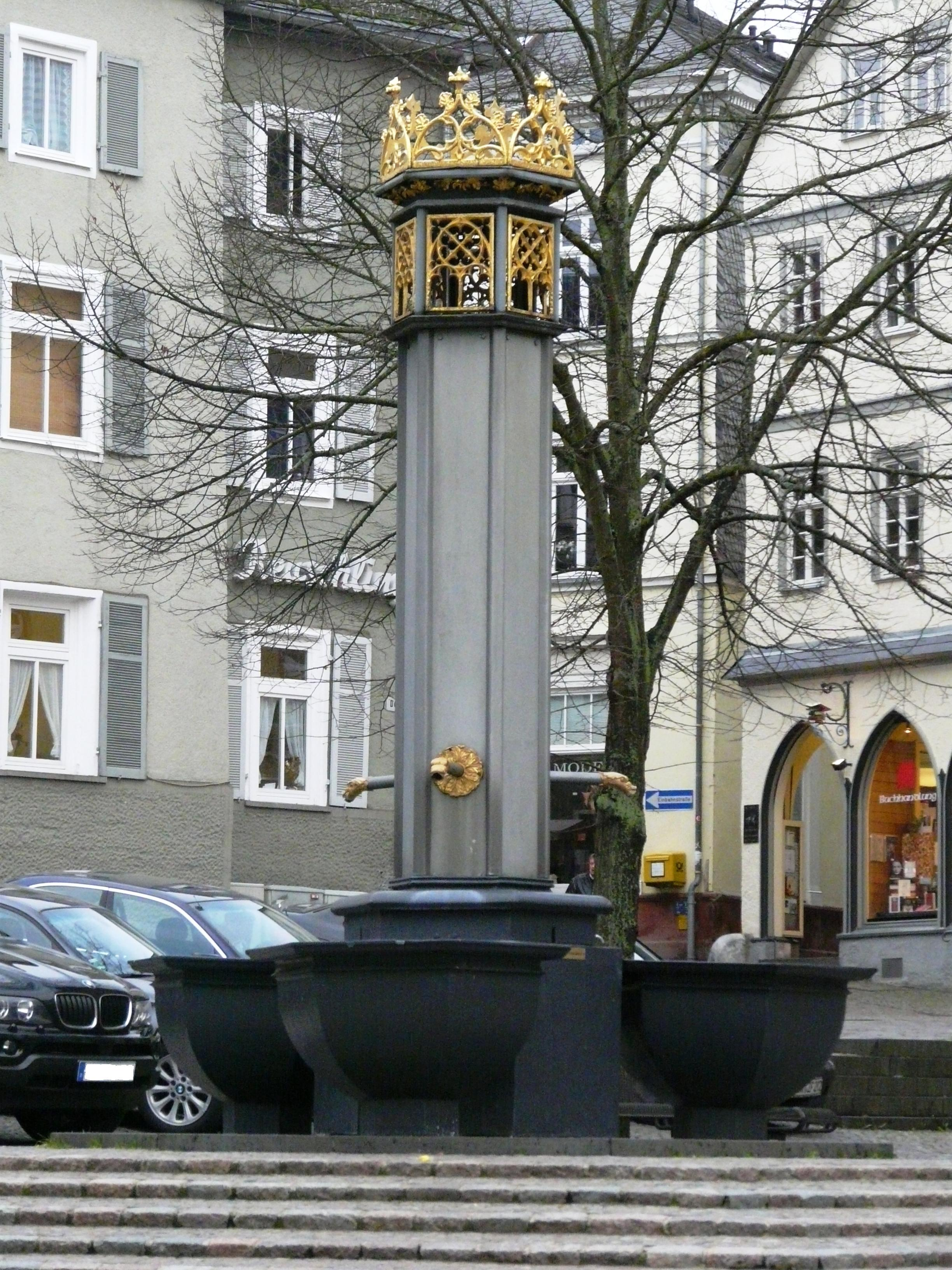 Fountain on Cathedral Square of Wetzlar (district Lahn-Dill)